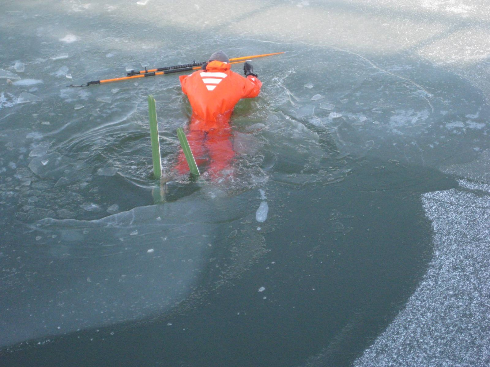 Getting our of icy waters after the weak ice has broken.